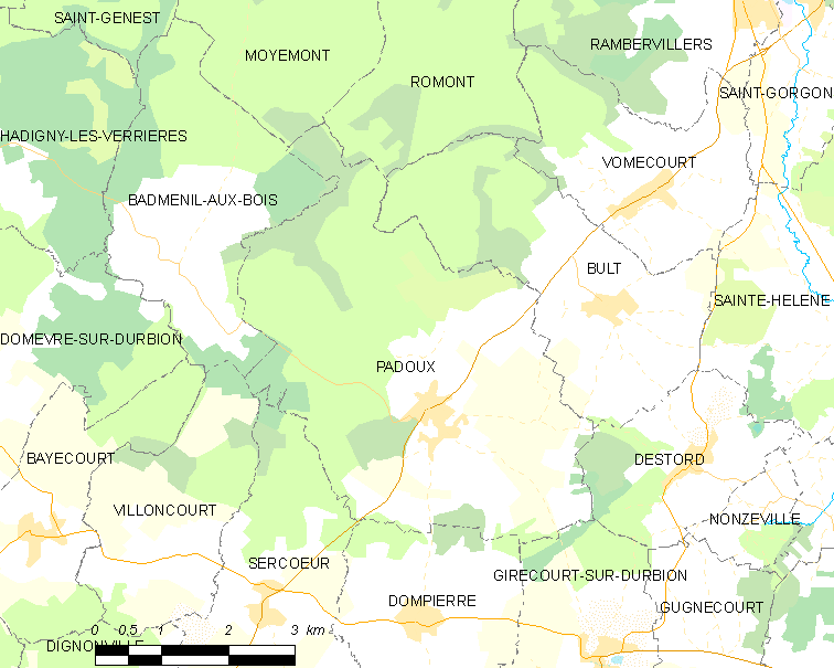 Map of French municipality Padoux